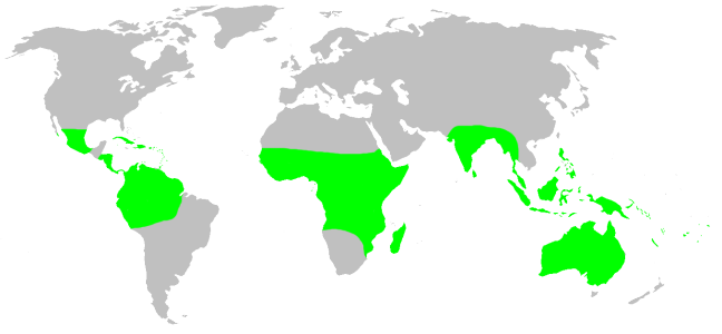 Barychelidae habitat distribution, drawn after Platnick: World Spider Catalog 7.0. This is not a precise rendering of the distribution! If you have better information, please replace this map, or send me the info, so i will redraw it.